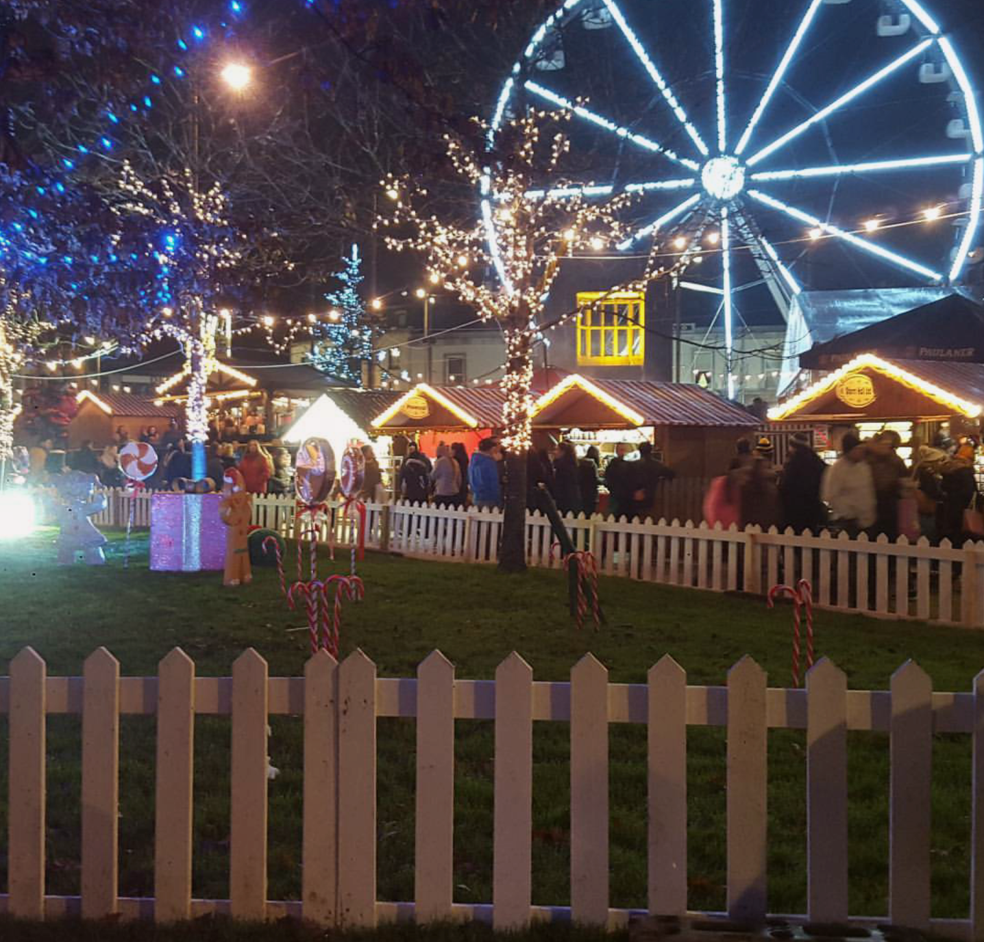 Galway Christmas market to go in galway wiki page under culture, sub heading festivals